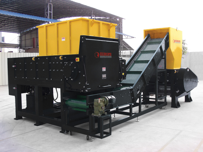 Industrial shredder and granulator with a conveyor belt